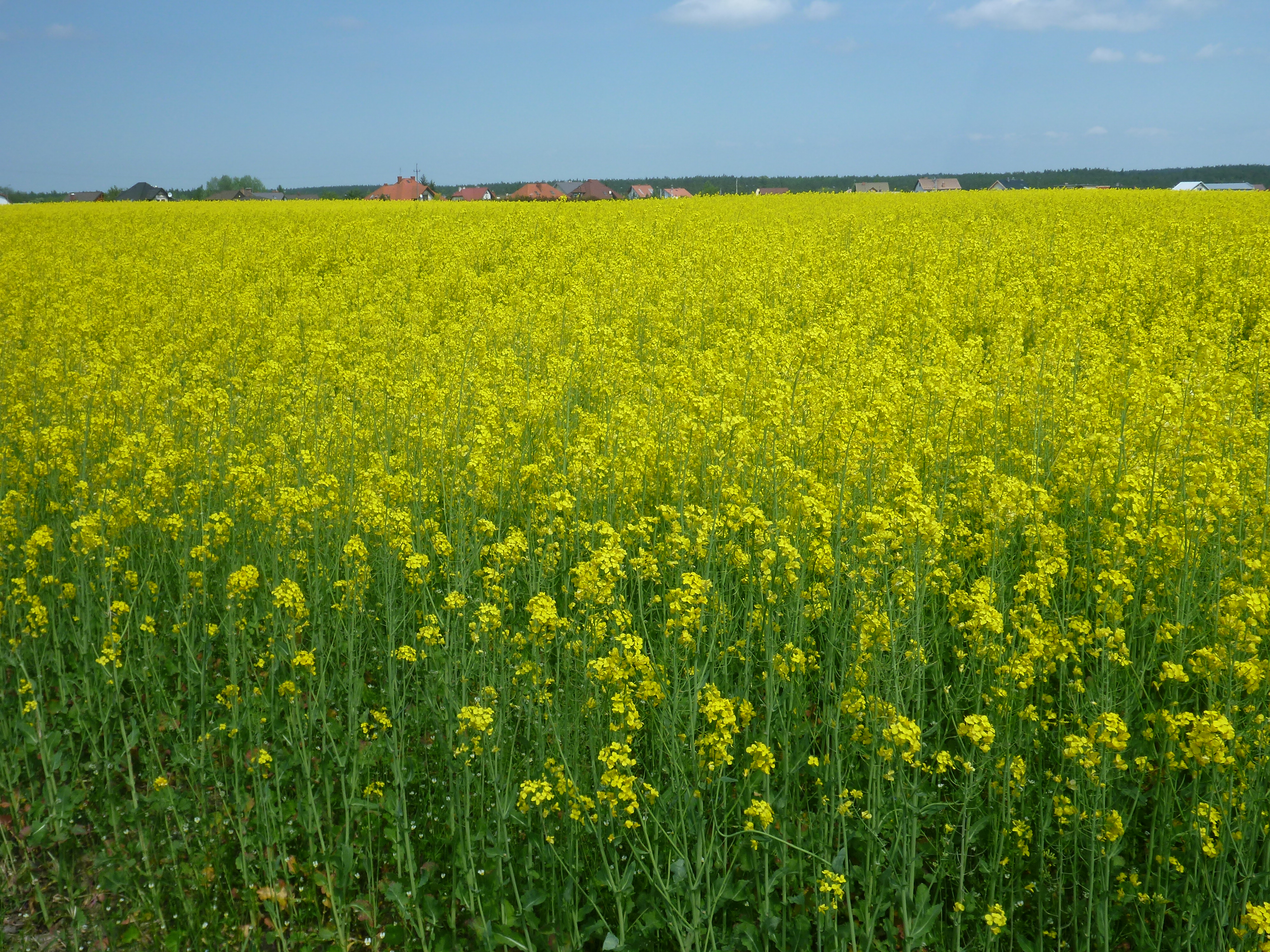 Yellow Fields of Kokoszkowy, May 2017